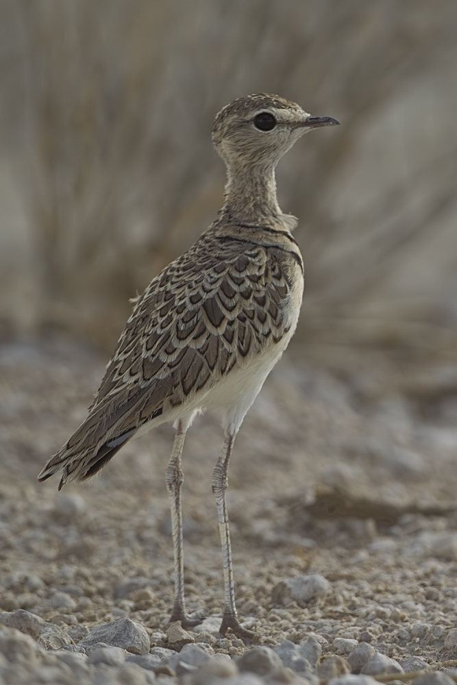 Double-banded Courser